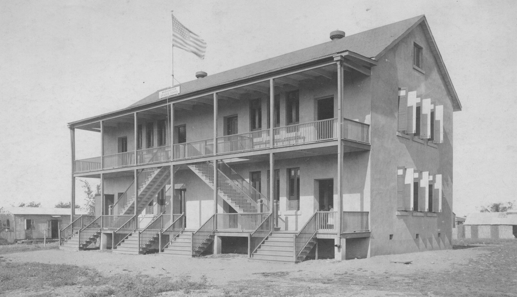 Washington’s Graduate School from Guayama, Puerto Rico Report of the Commissioner of Education for Porto Rico to the Secretary of the Interior U.S.A Year 1903. p. 33.